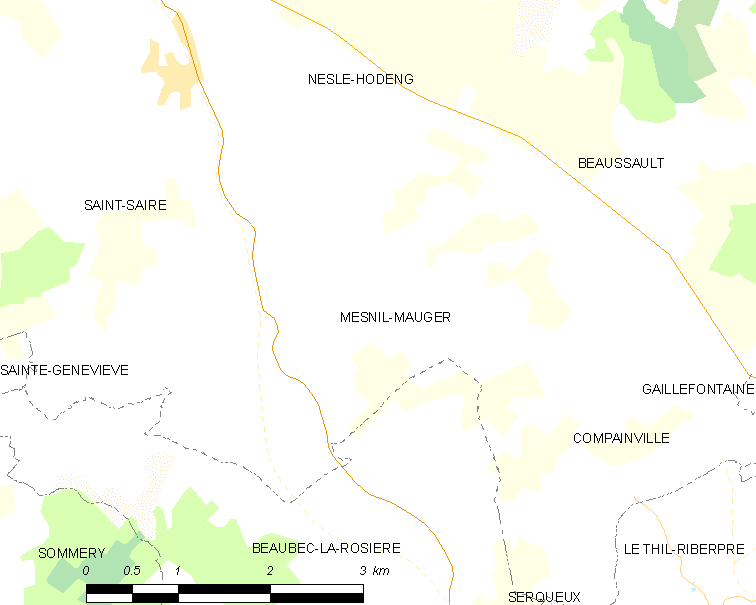 Map of French municipality Mesnil-Mauger